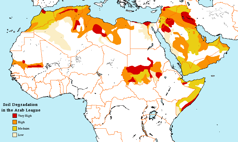 Soil degradation among Arab League countries